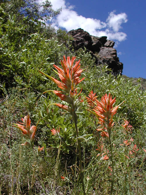 Castilleja integra at Great Sand Dunes National Park, Colorado, USA